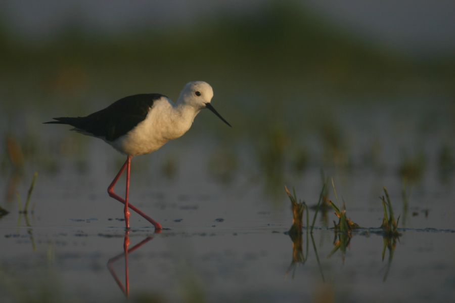 Black-winged stilt (Himantopus himantopus), Mekszikópuszta, Hungary